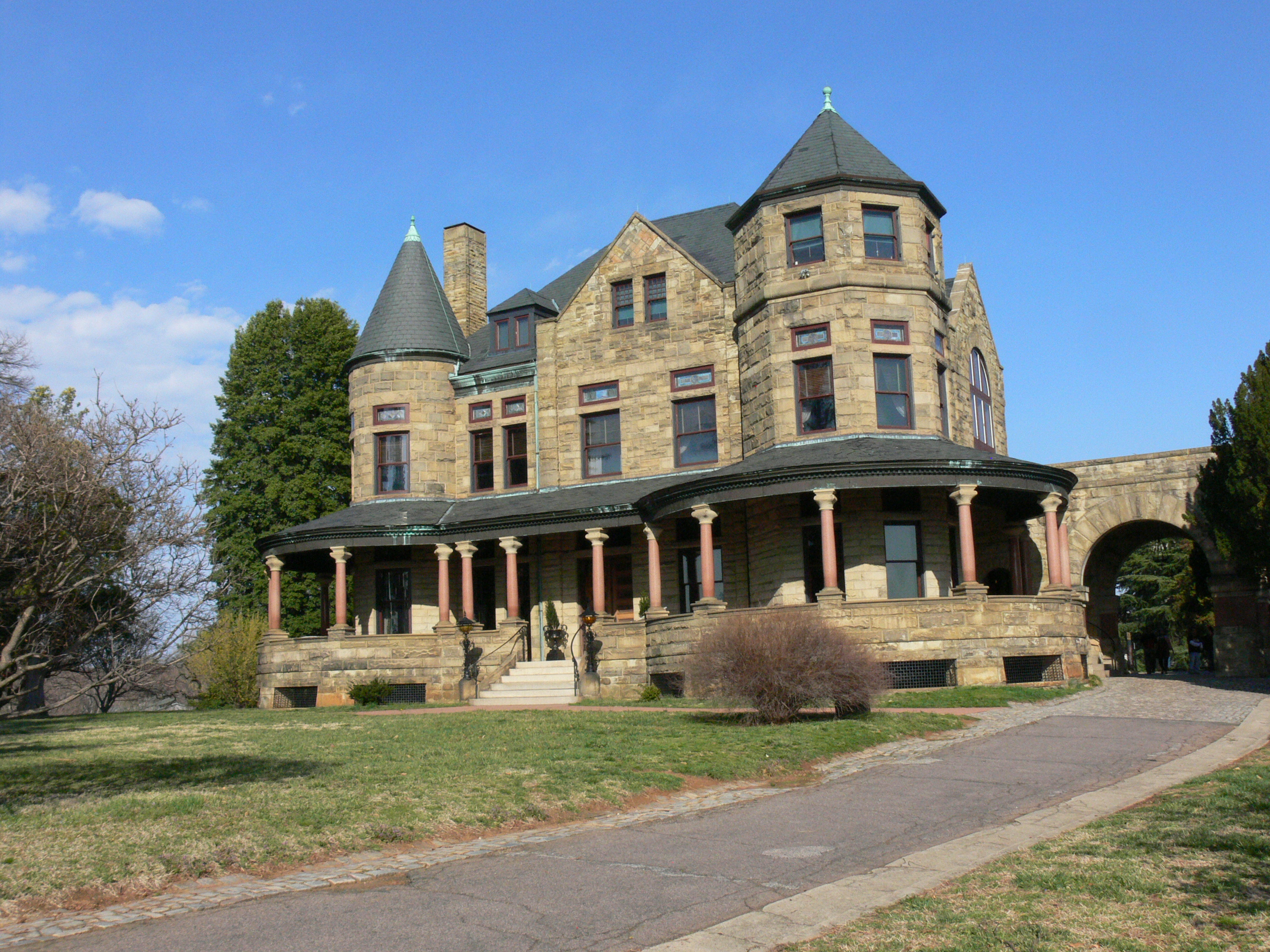 The Dooley Mansion at Maymont, in Richmond, Virginia